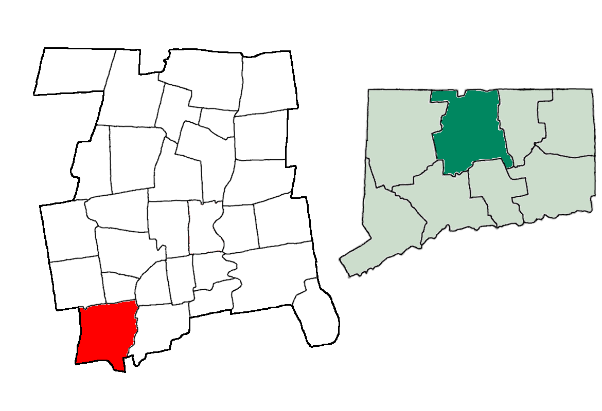 Created by editing Hartford Hartford.png by SoundGod3 which was created using data from the US Census Bureau.